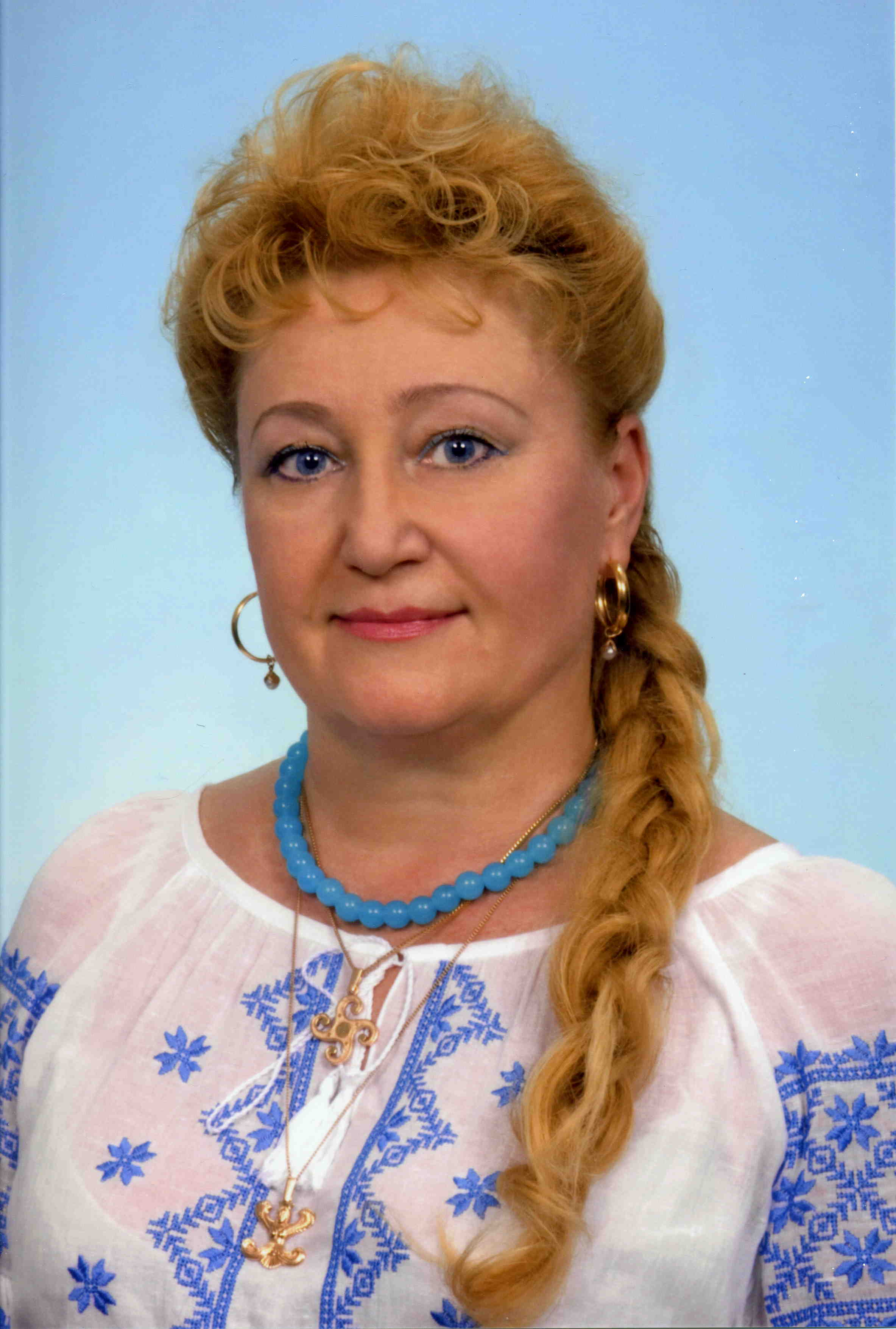 The fotoportrait of Doctor of Sciences (Philosophy), professor Halyna Lozko